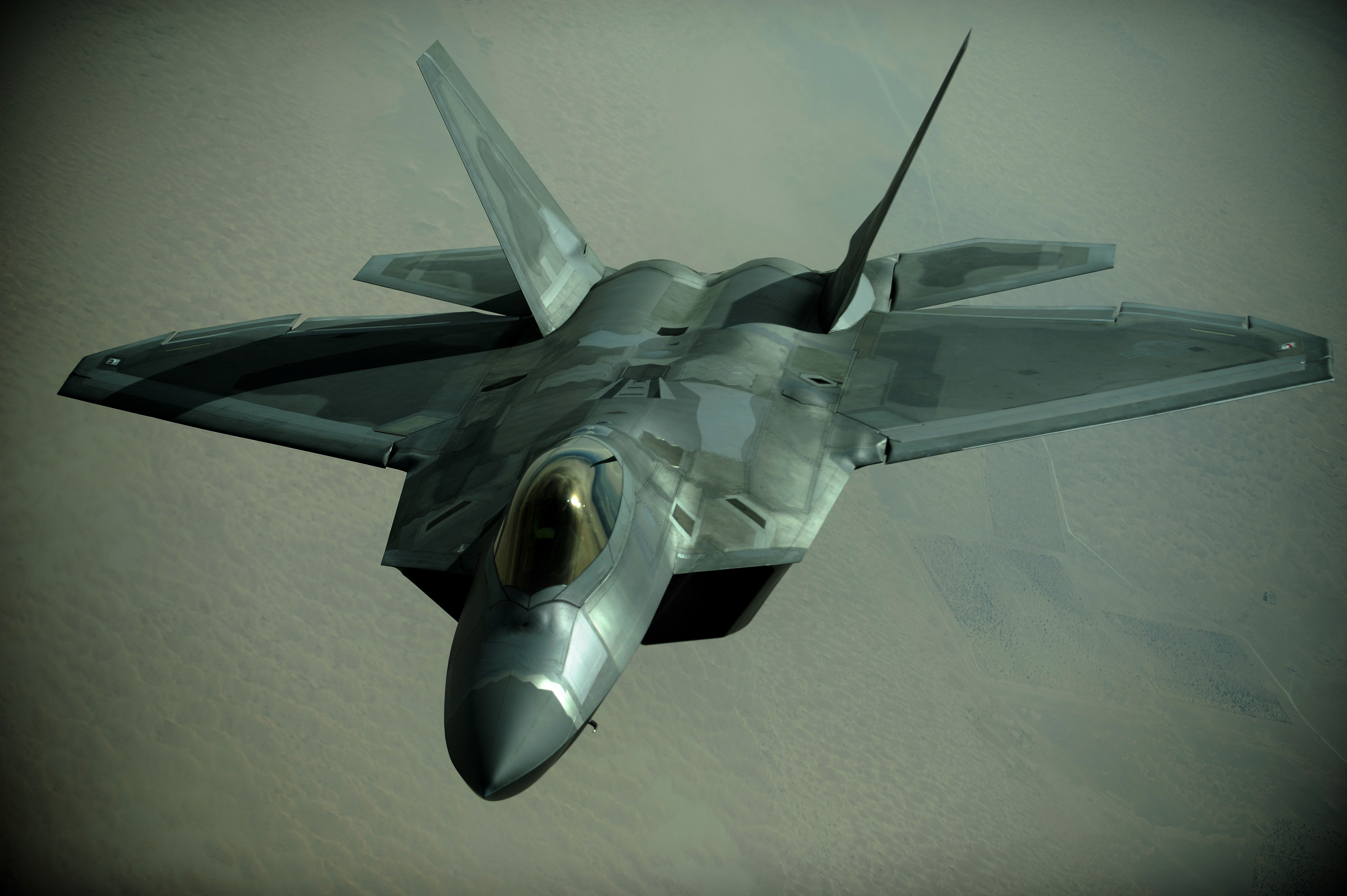 A U.S. Air Force F-22 Raptor conducts a training mission during a multinational exercise, Dec. 6, 2009. The F-22 fighters and crews are deployed from the 27th Fighter Squadron at Langley Air Force Base, Va., and in the Air Forces Central area of responsibility for the first time as part of a multinational exercise where aircrews from France, Jordan, Pakistan, the U.A.E., the U.K., and the U.S. trained together in fighting a large-scale air war.